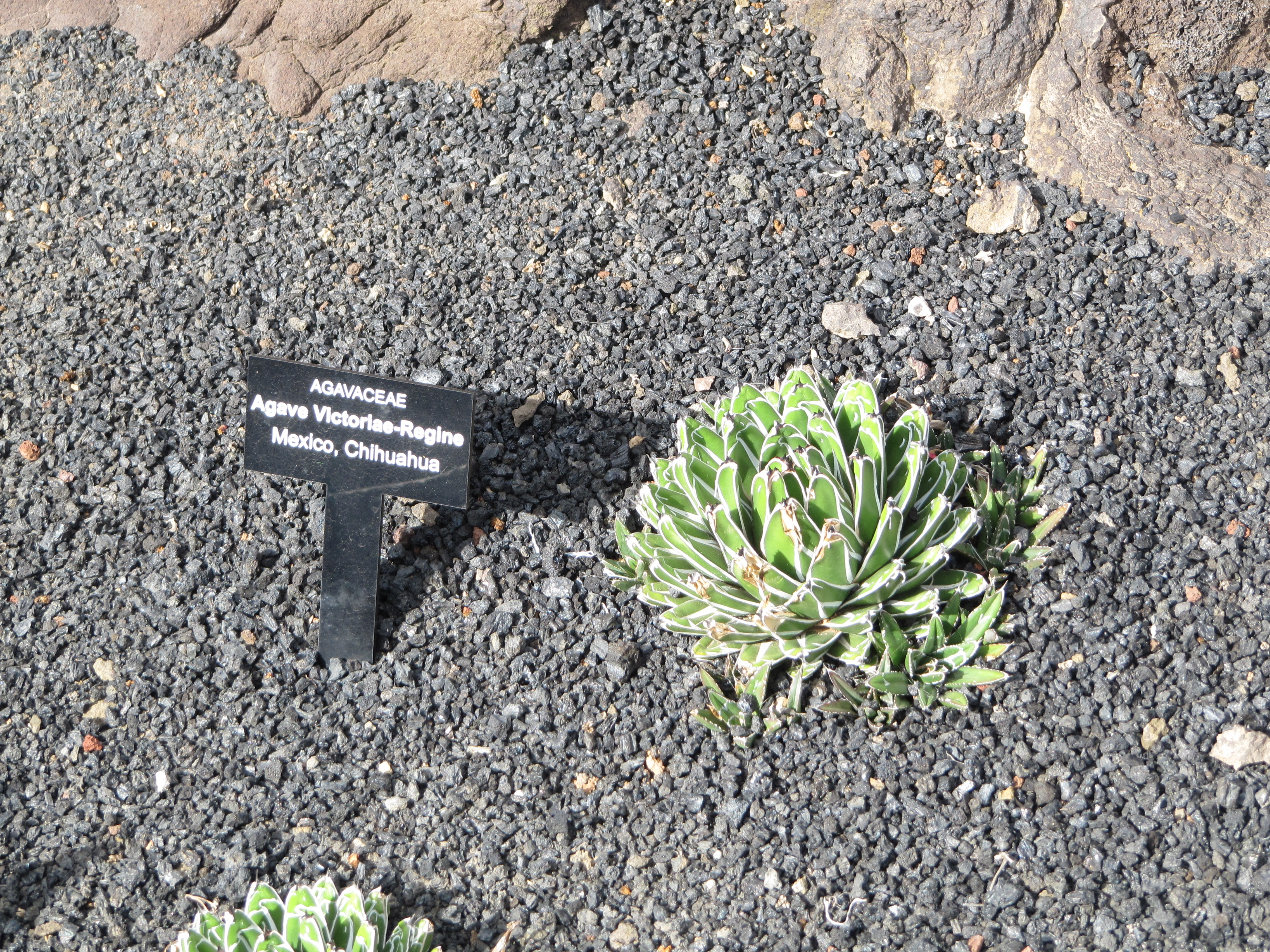 Agave victoriae-reginae